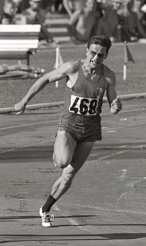 The French sprinter Jocelyn Delecour Paul Genevay in the bend of his 200 metres to Rome Olympics. See File:Paul Genevay and Livio Berruti 1960.jpg